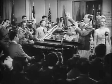 Cropped screenshot of Benny Goodman and his band, with featured vocalist Peggy Lee from the film Stage Door Canteen.